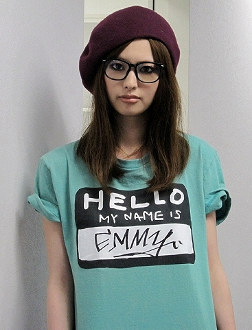 Emi Suzuki, a Japanese female model, with the hat, glasses, shirt which were made by her 6 year old fan.